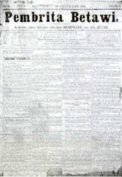 Scan of the Malay-language newspaper Pembrita Betawi. "Taon II" is barely legible at the top of the page, putting this around 1885